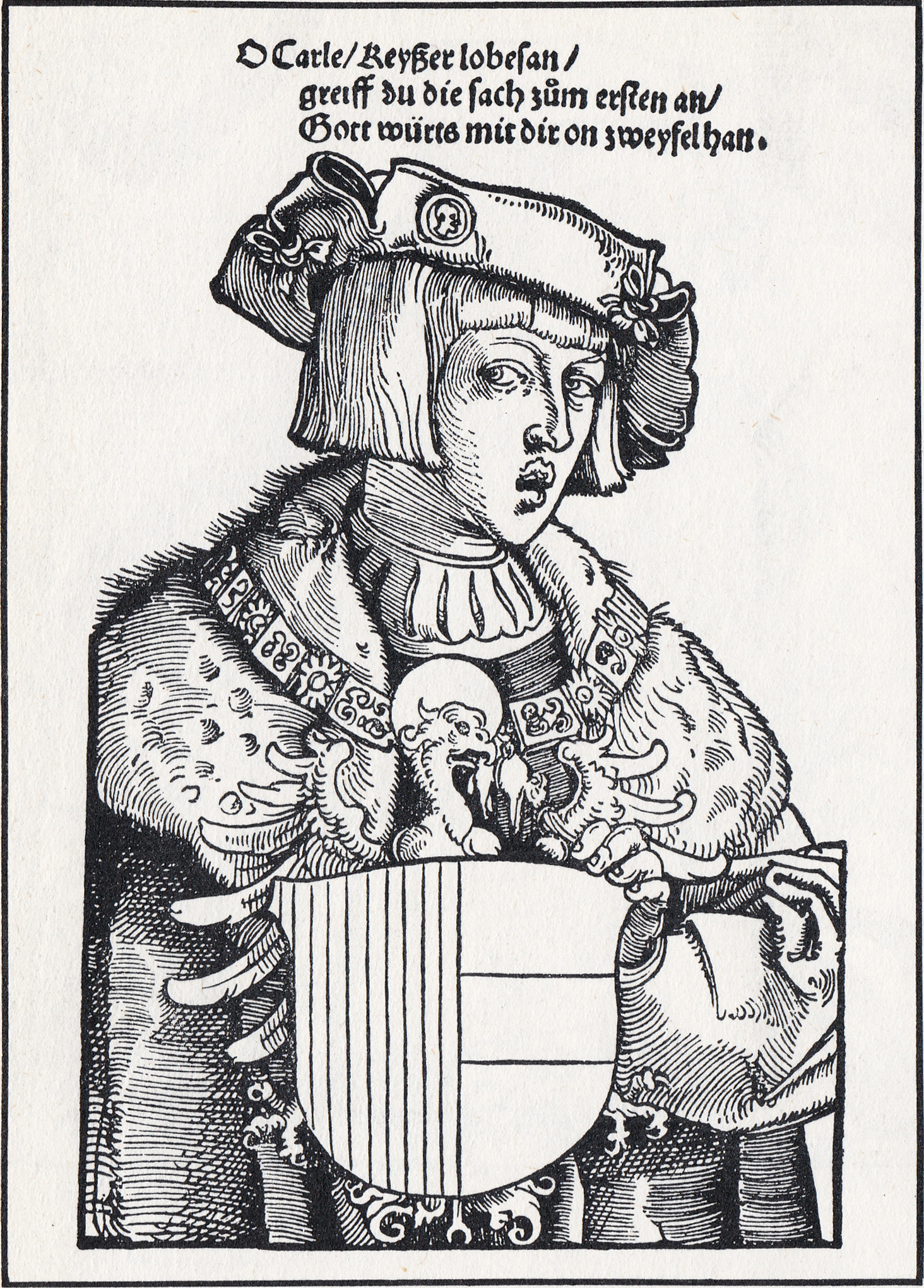 Picture from the time of the election of Karl V, From a pamphlet by Ulrich von Hutten.